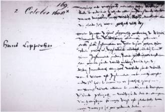 These are the words written down after Johannes Lipperhey unsuccessfully requested a patent for the invention of the telescope back in 1608. Lipperhey is actually not automatically seen as the inventor of this revolutionary device. Zacharias Jansen might have been earlier, but he didn't request a patent.